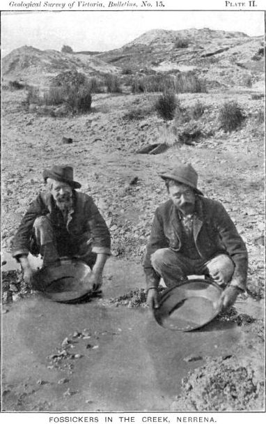 Nerrena Fossickers in Nerrena Creek. Location now known as Nerrina, a suburb of Ballarat. Author unknown but was originally published 1904 in Geol. Survey, the Department of Mines Bulletin No. 15 in which W.M. Bradford described the locality as “The Nerrena or Little Bendigo Gold-field""